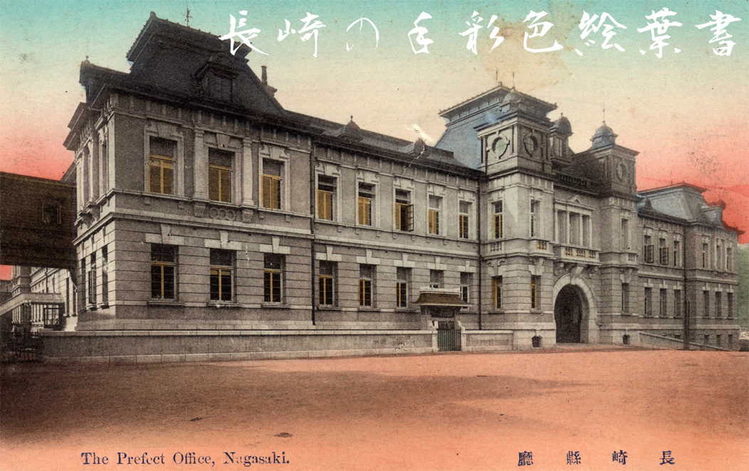 Japanese hand tinted postcard of the Nagasaki Prefectural Office in Nagasaki City, opened in 1911